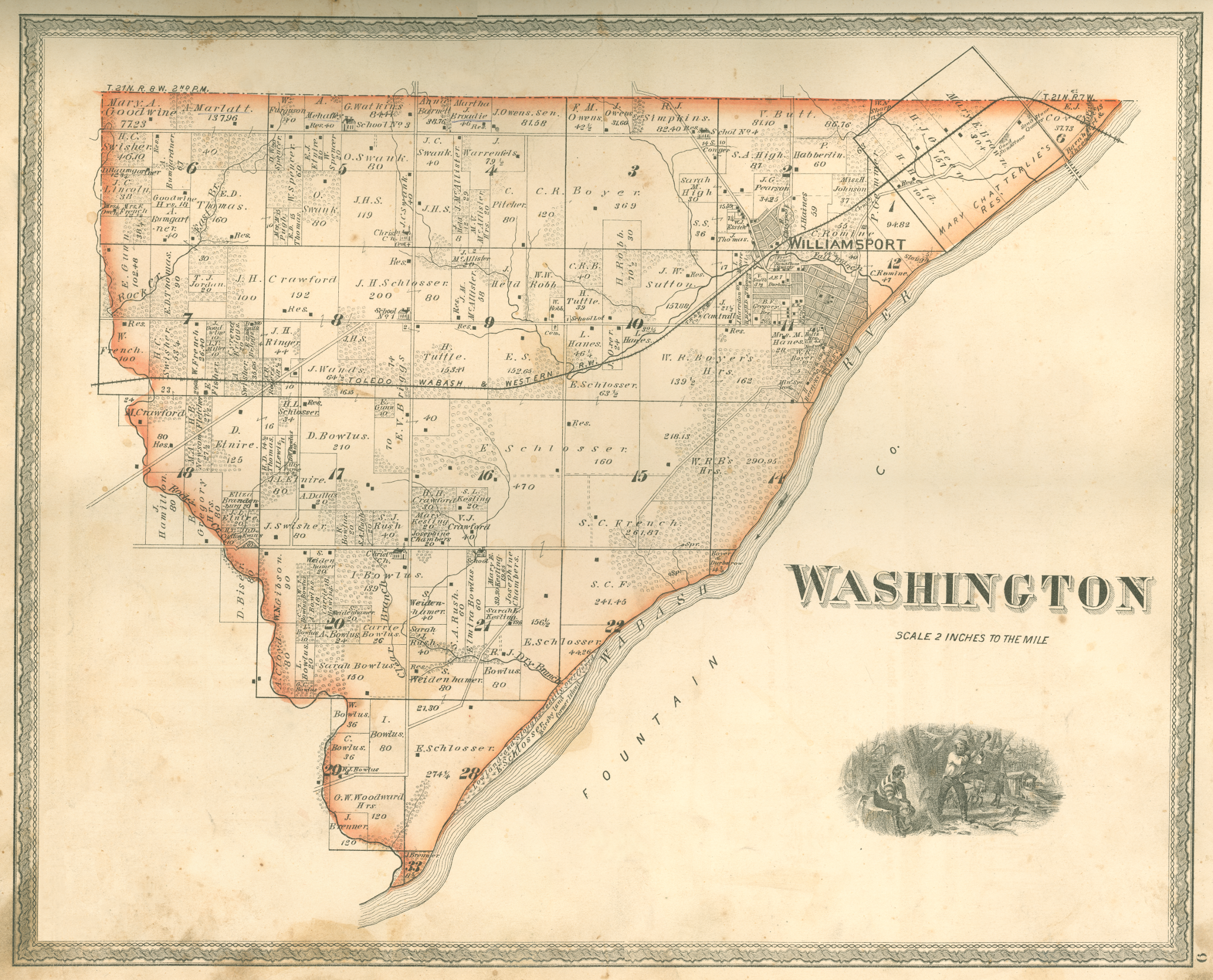 A map of Washington Township, Warren County, Indiana from an 1877 county atlas.